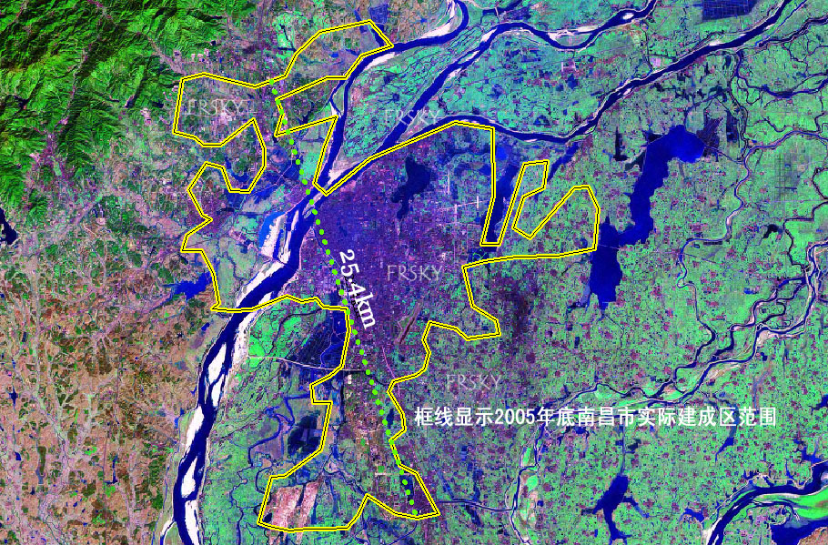 Sat Img of Nanchang City(JX Prov.,CHN)